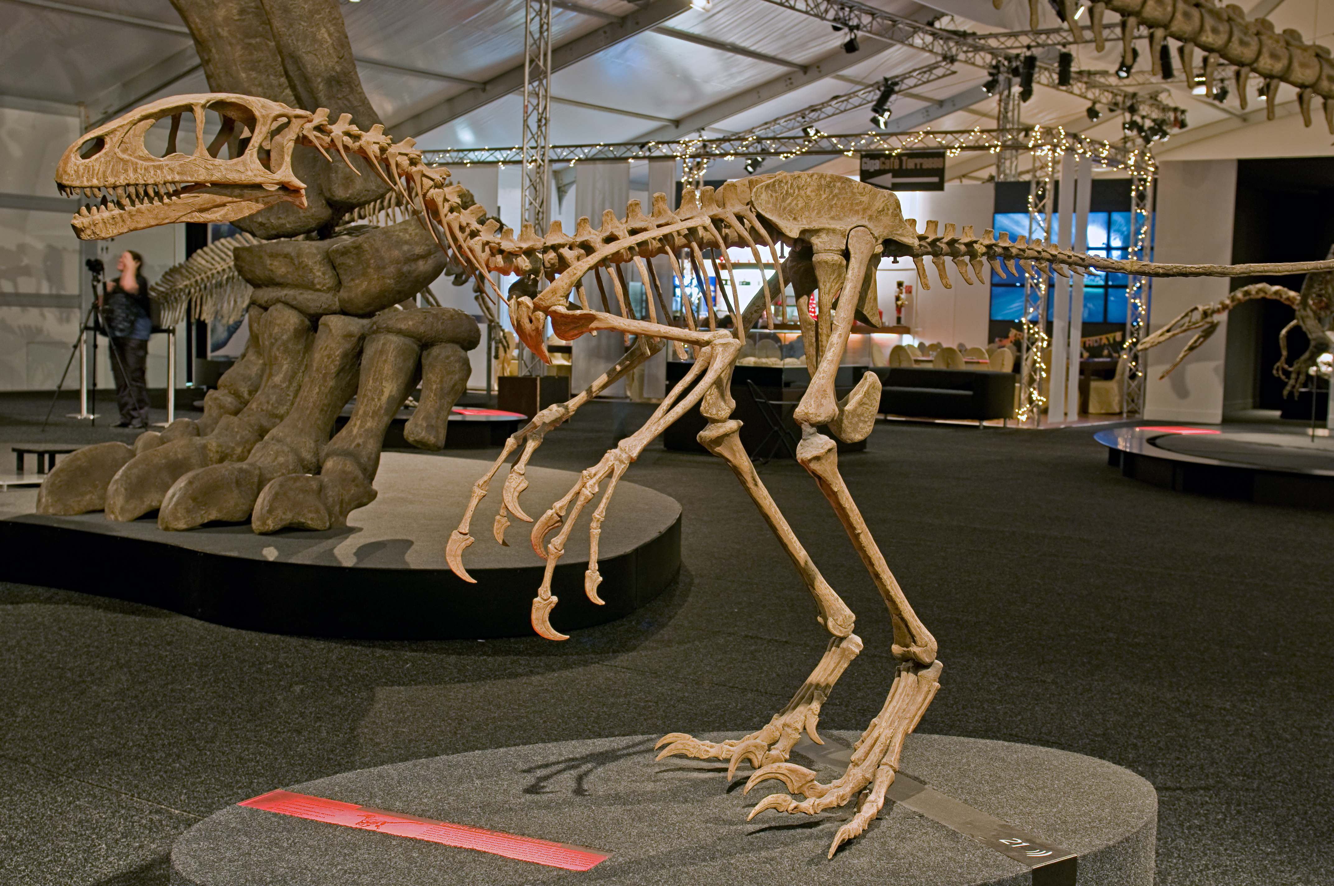 Skeleton replica of an Unenlagia comahuensis